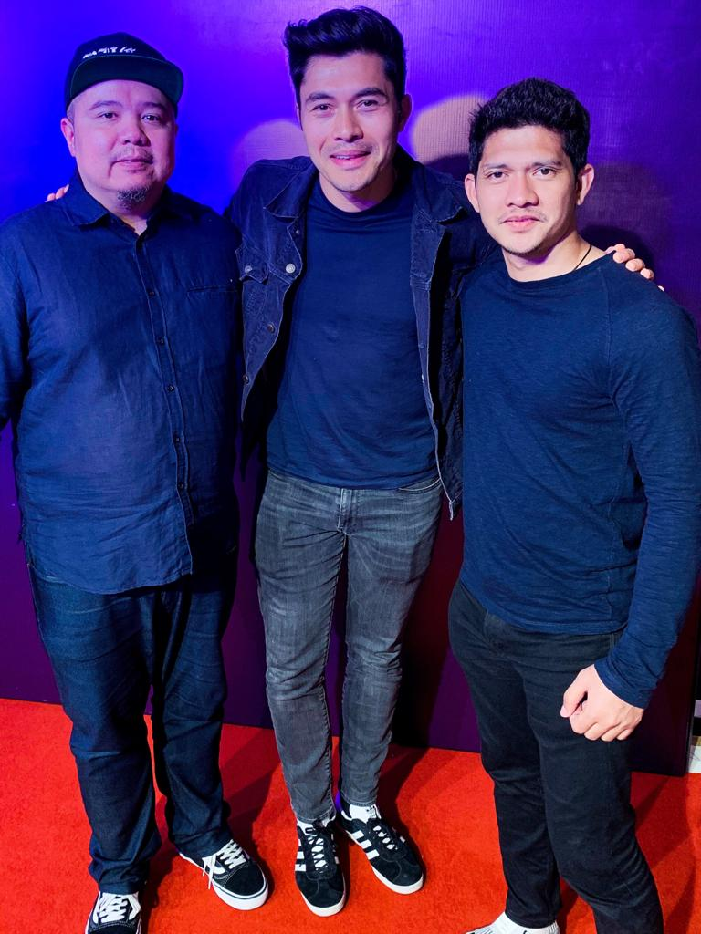 Photo of Ricky Siahaan, Henry Golding and Iko Uwais.